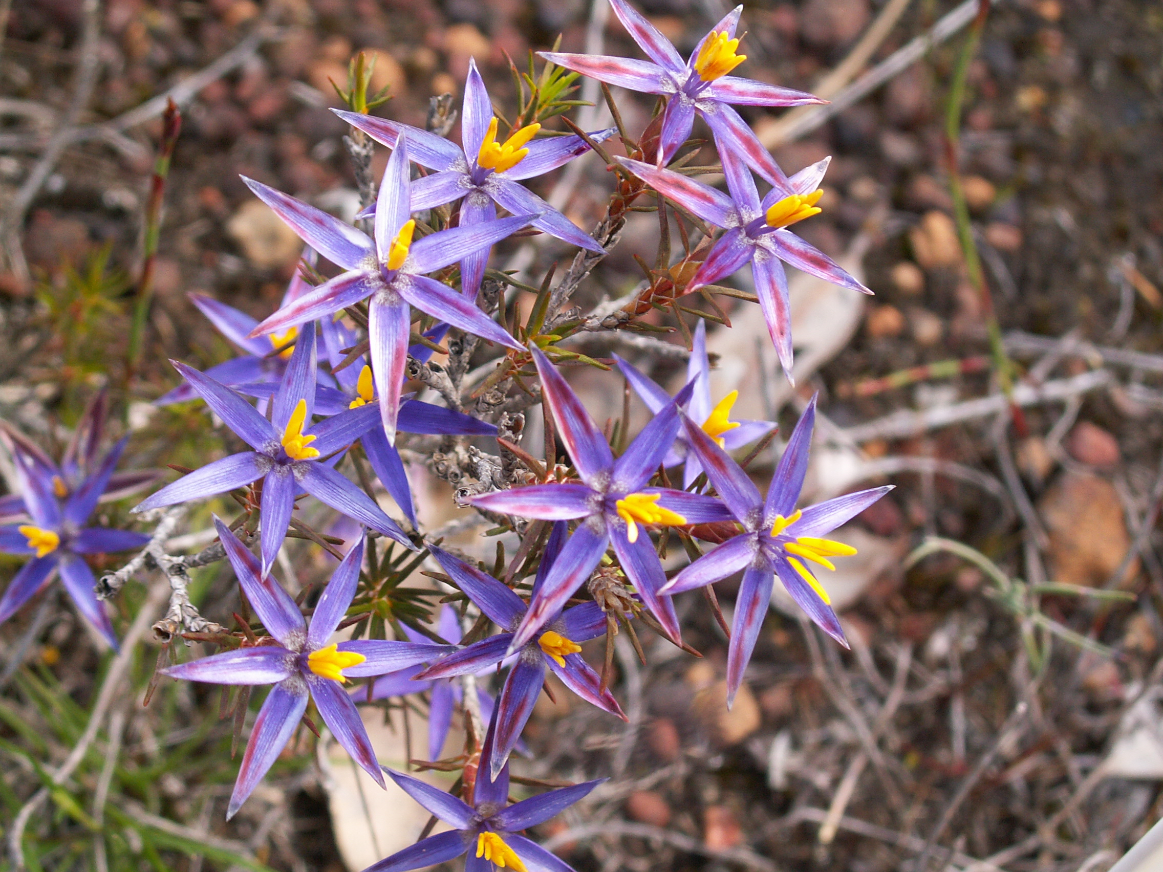 Mount Barker Banksia Farm